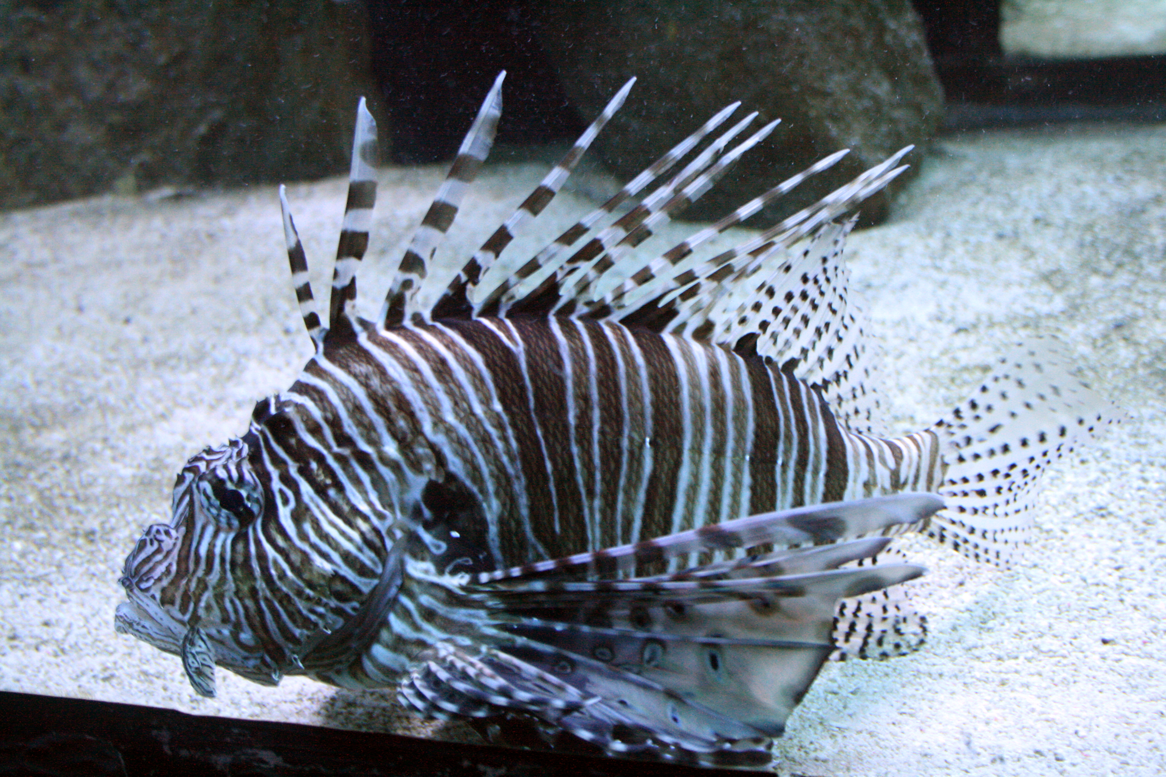 Fish red lionfish, Pterois volitans in Prague sea aquarium, Czech Republic Česky: Ryba perutýn ohnivý, (Pterois volitans) v pražském mořském akváriu Mořský svět v Holešovicích